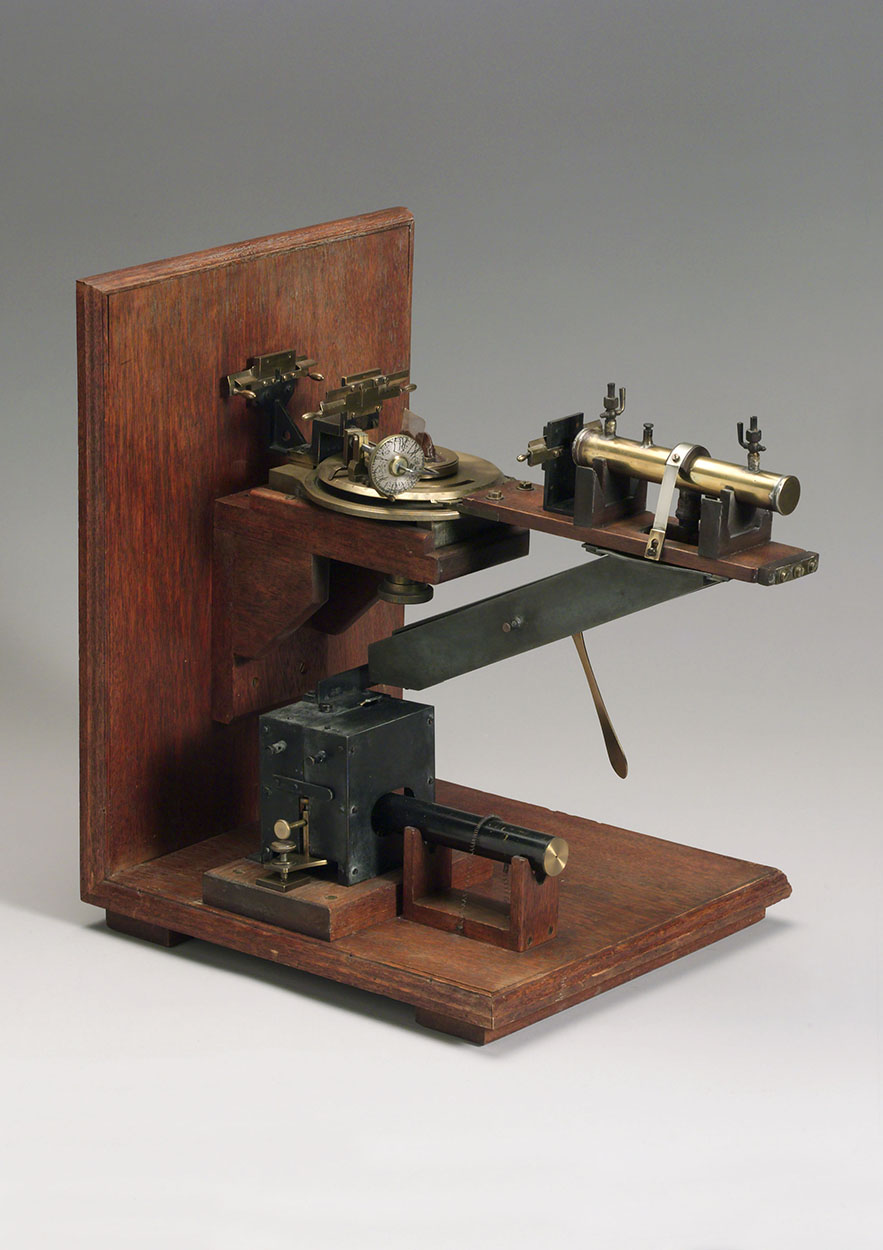 Developed by William Henry Bragg (1862-1942), a professor of physics based in Leeds, England, this X-ray spectrometer was used by him and his son William Lawrence Bragg (1890-1971) to investigate the structure of crystals. [1] [2]